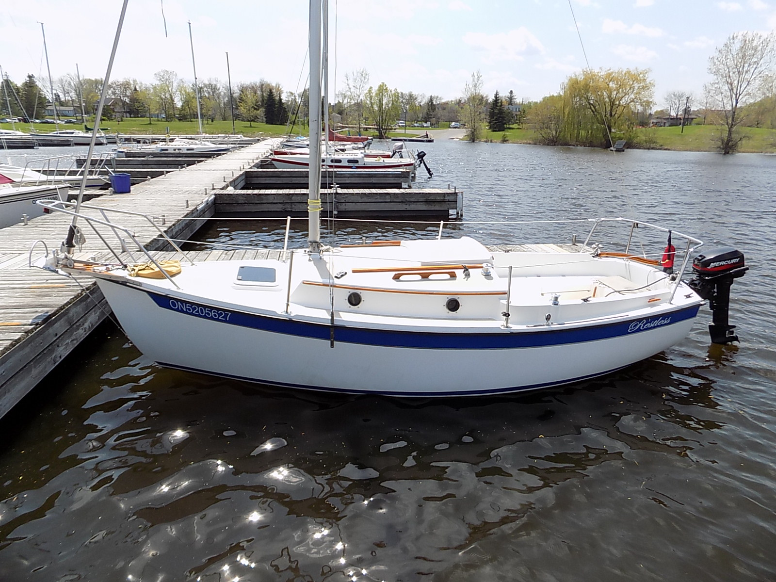 A COM-PAC 19 sailboat named Restless.